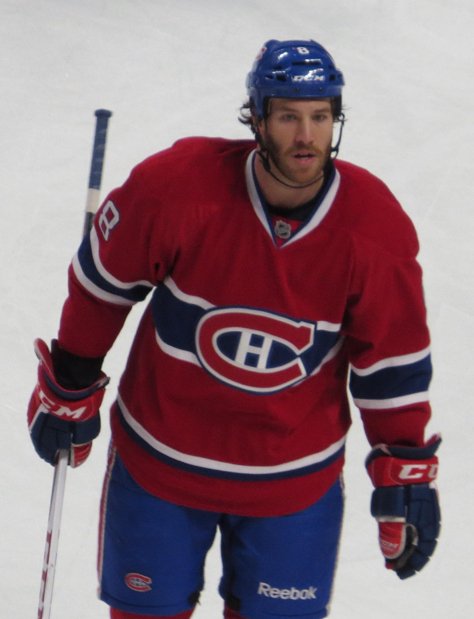 Brandon Prust playing against NJ Rangers 2013-01-27 at Bell Centre in Montréal. Day of his first goal with the Canadiens.